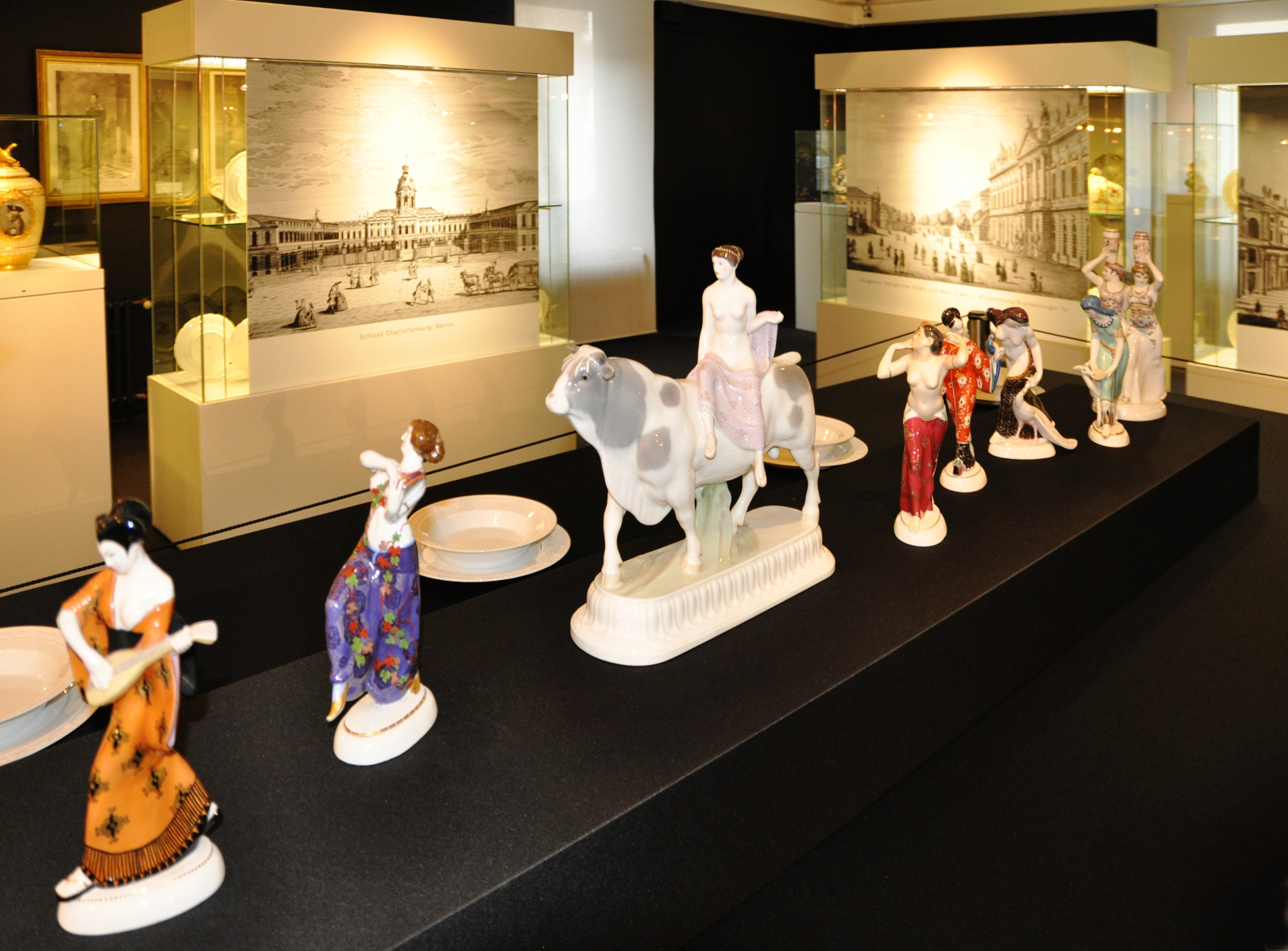 Ausstellung im HETJENS - Deutsches Keramikmuseum "Königliche Eleganz, preußische Pracht - 250 Jahre Königliche Porzellan-Manufaktur Berlin" kuratiert von Dr. D. Antonin (2013)